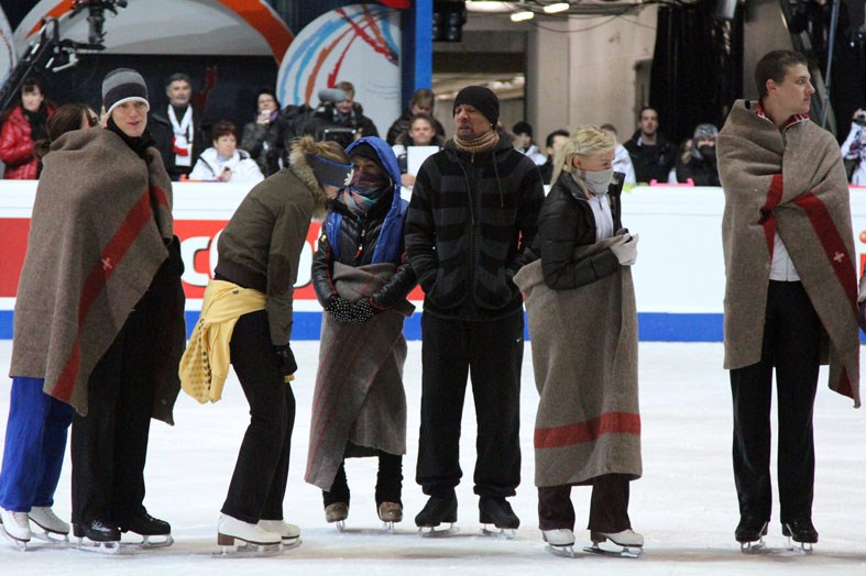 Frozen skaters at the Gala Practice at the 2011 European Figure Skating Championships. From left to right: Nathalie Péchalat, Tomáš Verner, Carolina Kostner, Aliona Savchenko, Robin Szolkowy, Katarina Gerboldt and Alexander Enbert